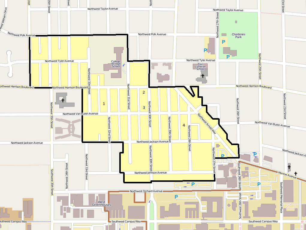 Map showing the boundaries of the College Hill West Historic District in Corvallis, Oregon, United States. The historic district is listed on the US National Register of Historic Places. Boundary data is derived from the historic district's National Register nomination form. Black boundary/yellow area: College Hill West Historic District boundaries. Brown boundary/tan area: Boundaries of the nearby Oregon State University Historic District. Numbers: Represent the locations of contributing resources in the historic district that are also listed individually on the National Register: J. Leo Fairbanks House Pi Beta Phi Sorority House John Bexell House Charles L. Schuster House